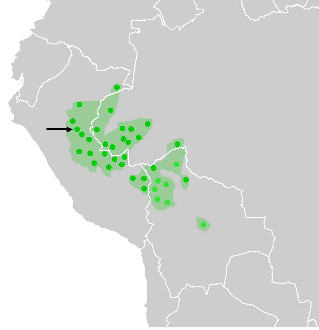 Shipibo language (pointed with an arrow) and the other pano-tacanan languages (other dots).